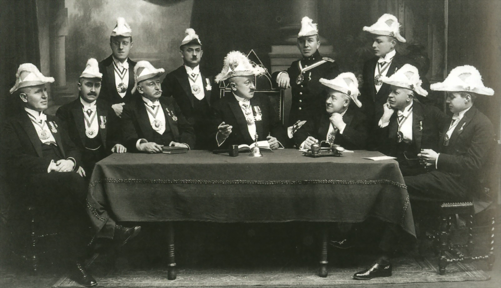 Maastricht, the Netherlands. Board of governors of Momus, the local society for welfare and wellbeing, who were also responsible for organising the Maastricht carnival. Photograph by unknown photographer, 1925.